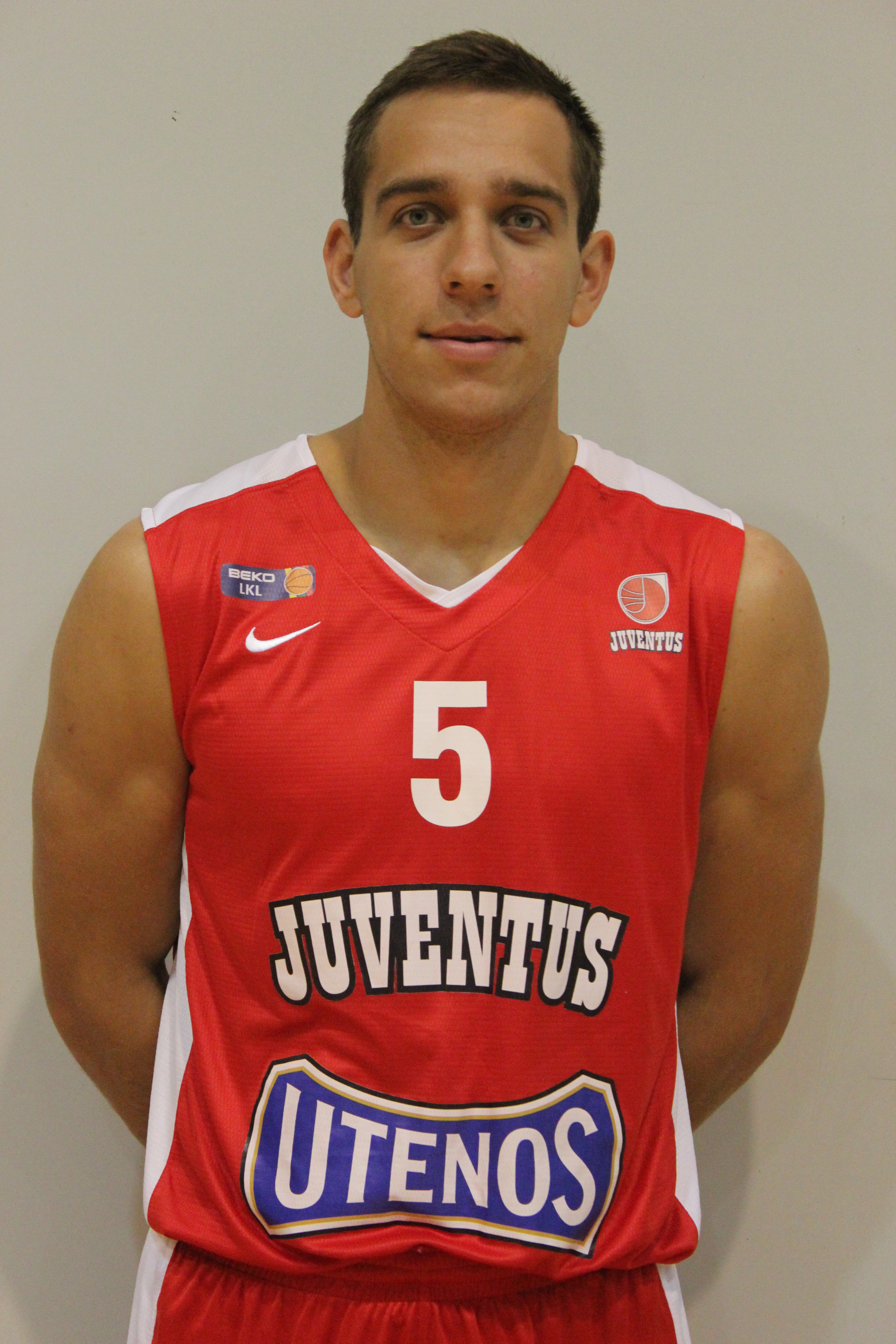 Photo of BC Juventus player Edgaras Stanionis during the 2014-15 season.